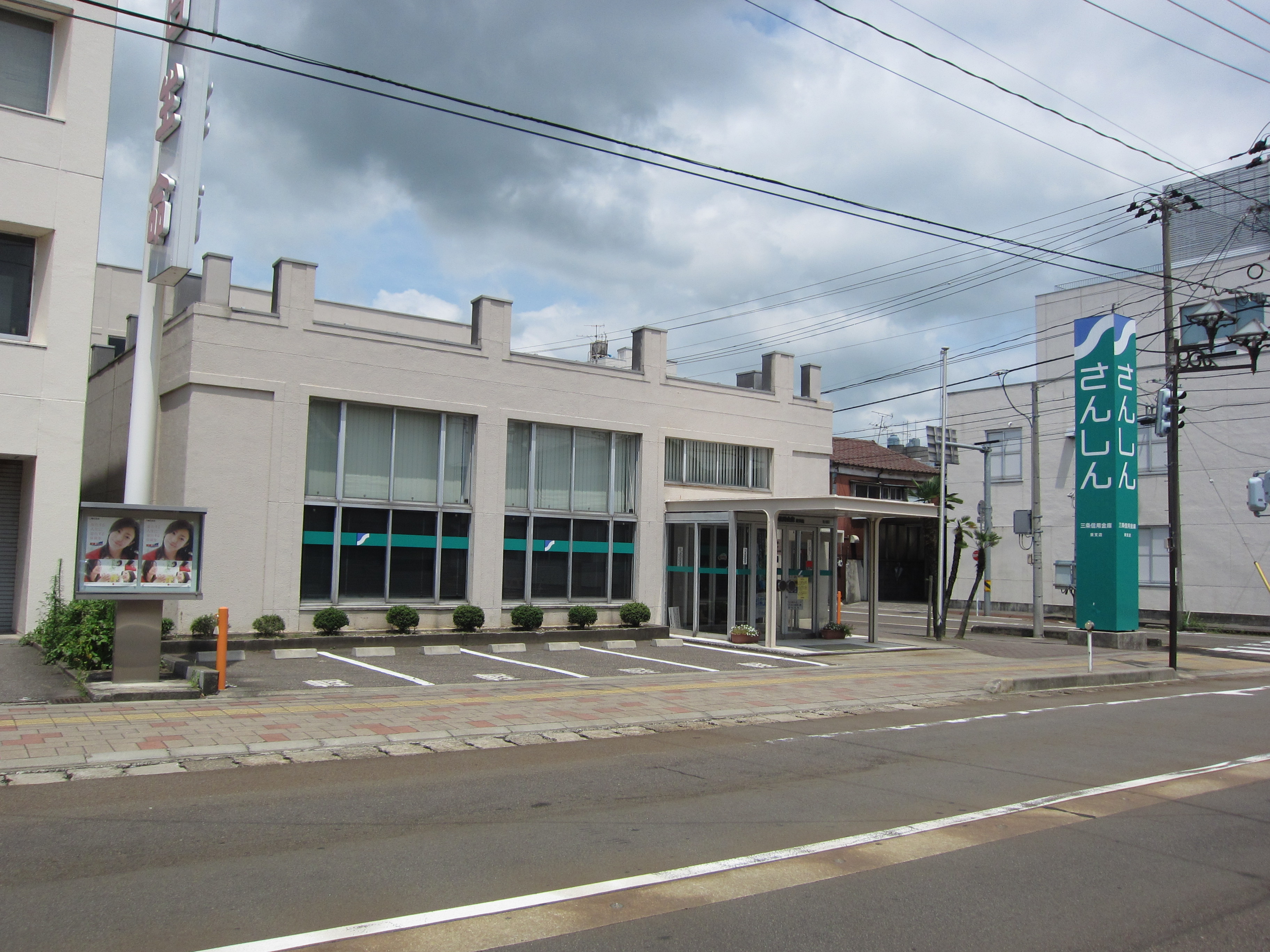 Sanjo Shinkin Higashi Branchi